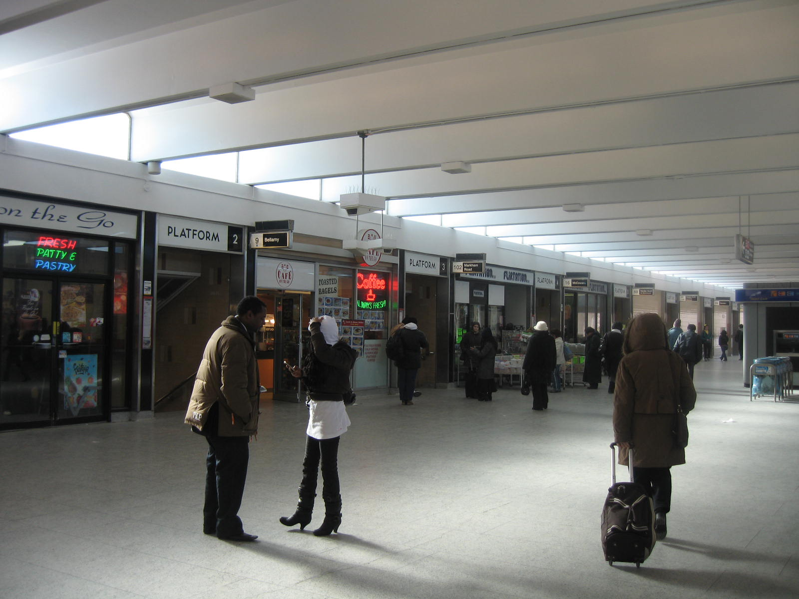 Warden Station Bus Platform